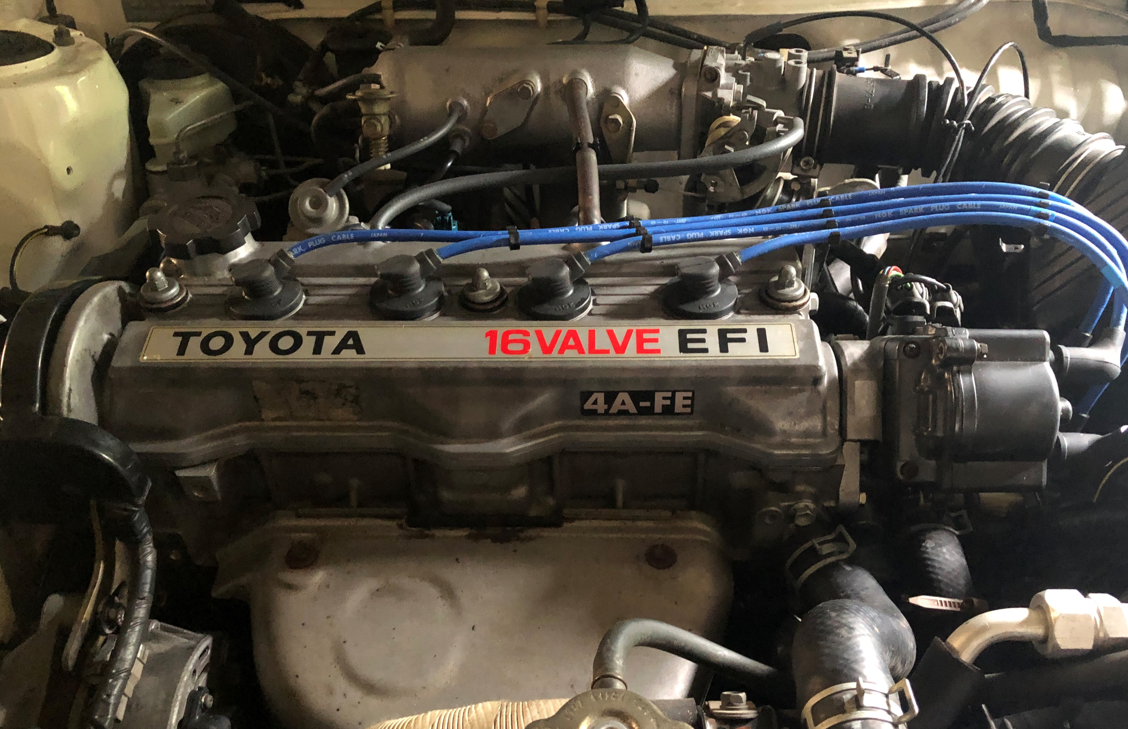 First generation 4A-FE made by Toyota.